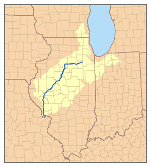 This is a map of the Illinois River watershed. Tributary of the Mississippi River. Credits I, Pfly, made it, based on USGS data.